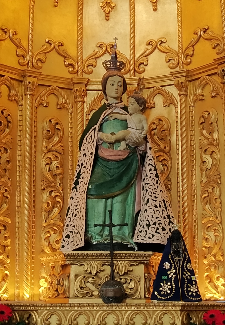 Image of Our Lady of Hope in the Parish Church of Belmonte, Portugal.